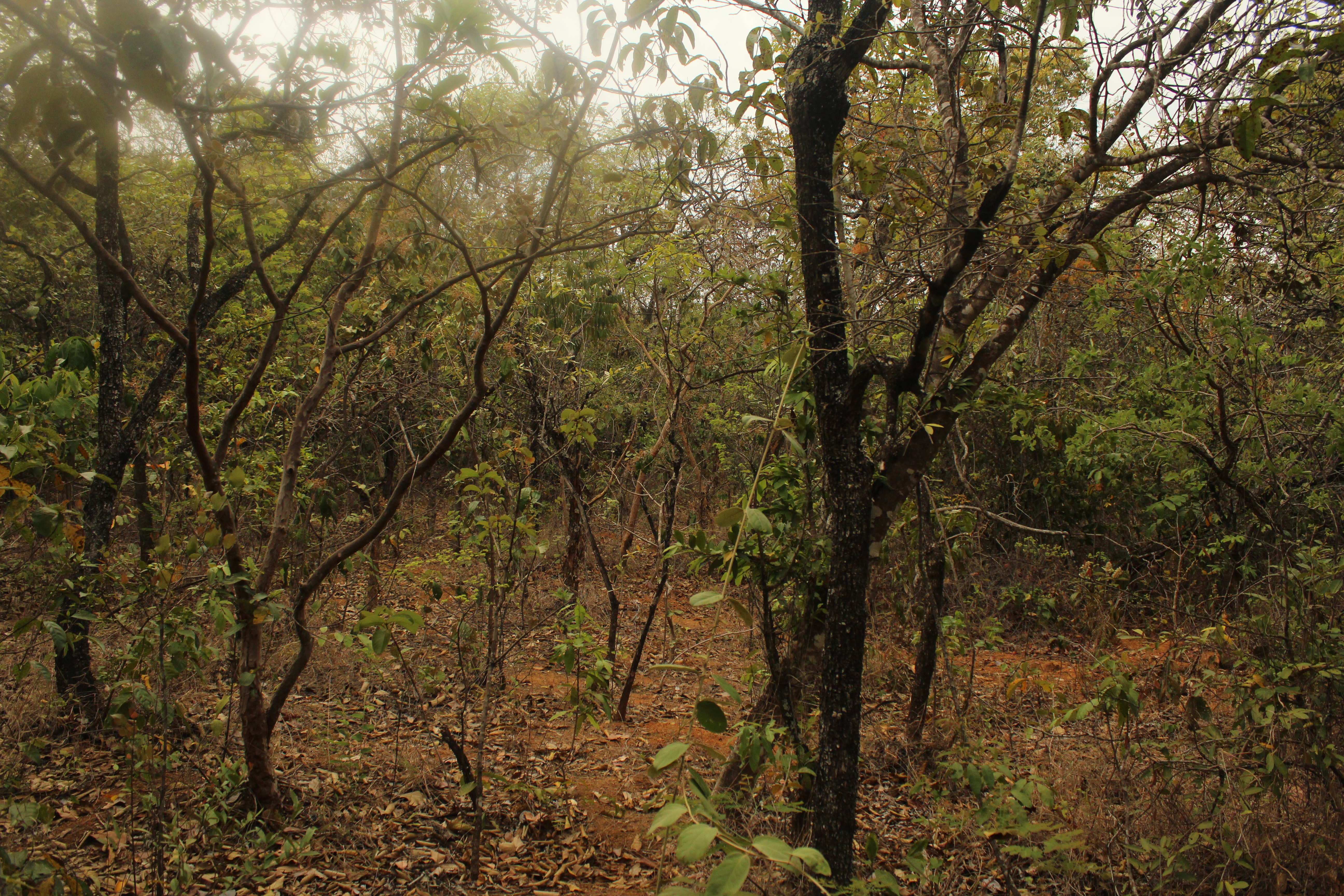 Cerrado. National Forest of Paraopeba. Paraopeba-MG, Brazil.